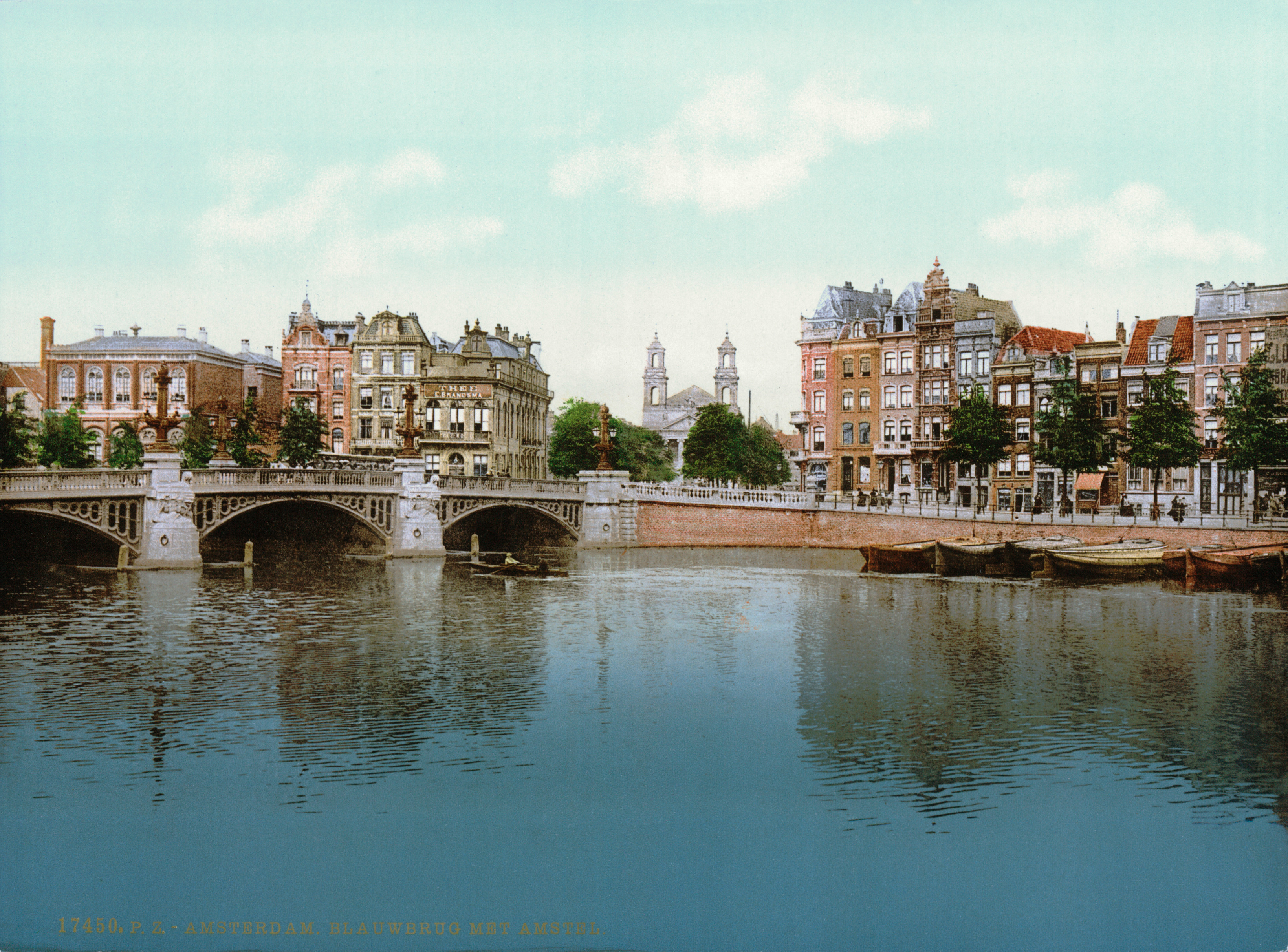 Amsterdam - Blauwbrug en Amstel